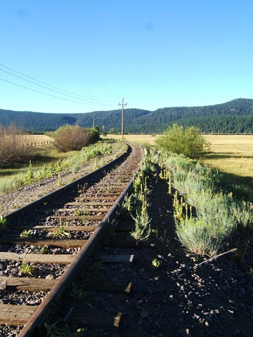 Almanor Railroad between Chester, California and Lake Almanor. Picture taken by Kurt Montandon, July 2007; public use as desired.